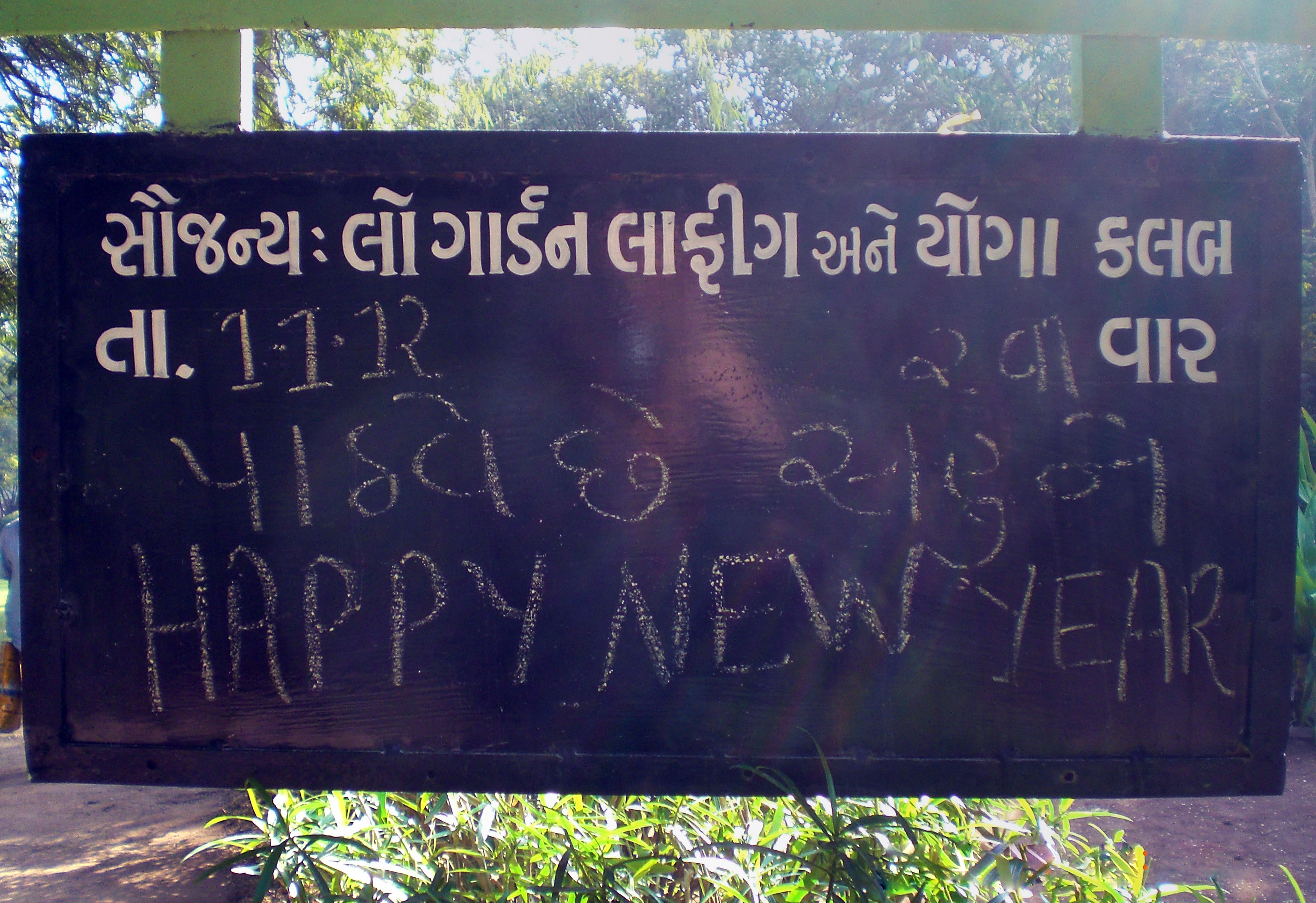 An instuction Board written in Gujarati and English at Law Garden, Ahmedabad